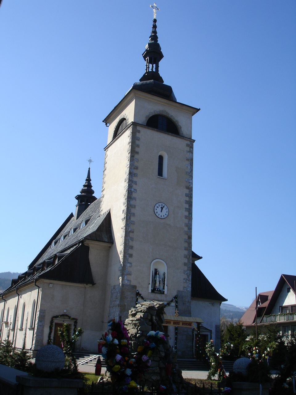 Latin church in village Kamienica